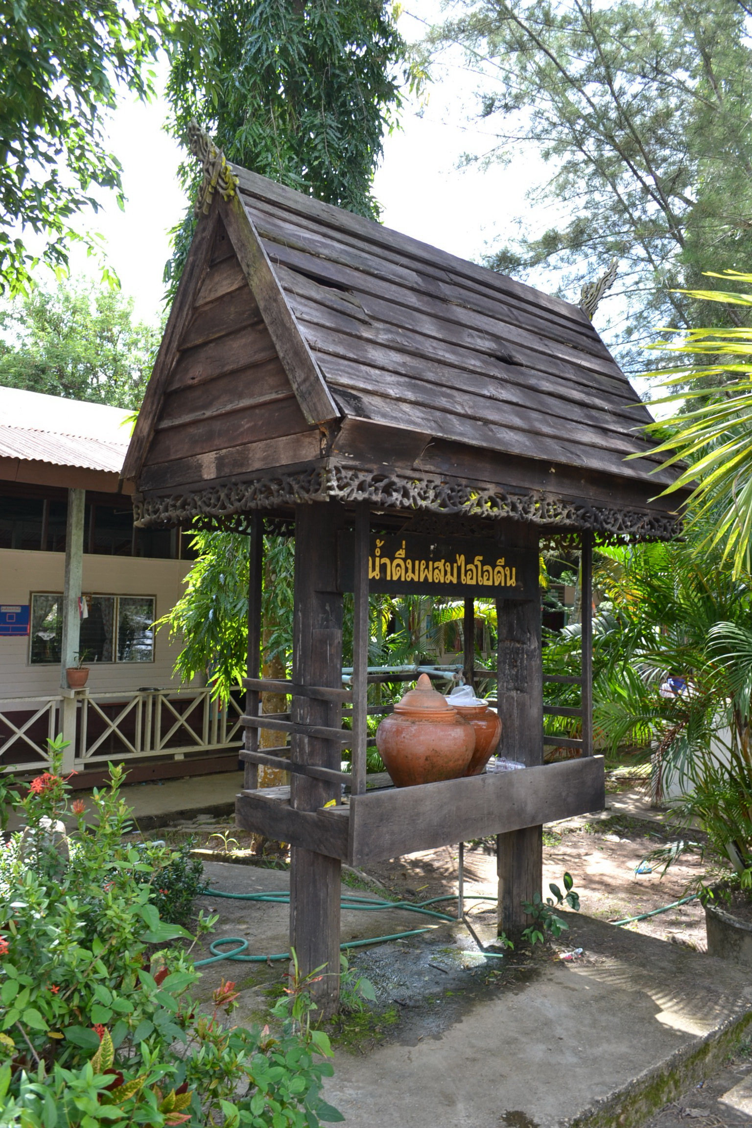 Wat Maecheai School , Mueang Uttaradit, Uttaradit Province, Thailand.